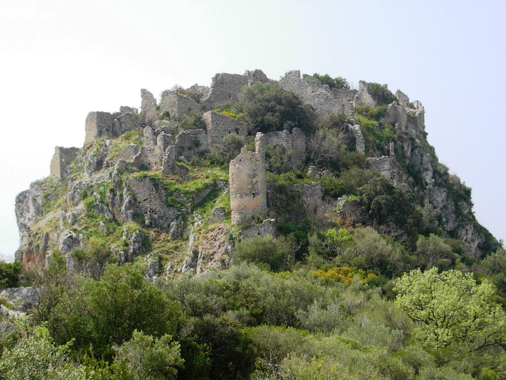 Ruins of the castle of Castrocucco, near Maratea Castrocucco